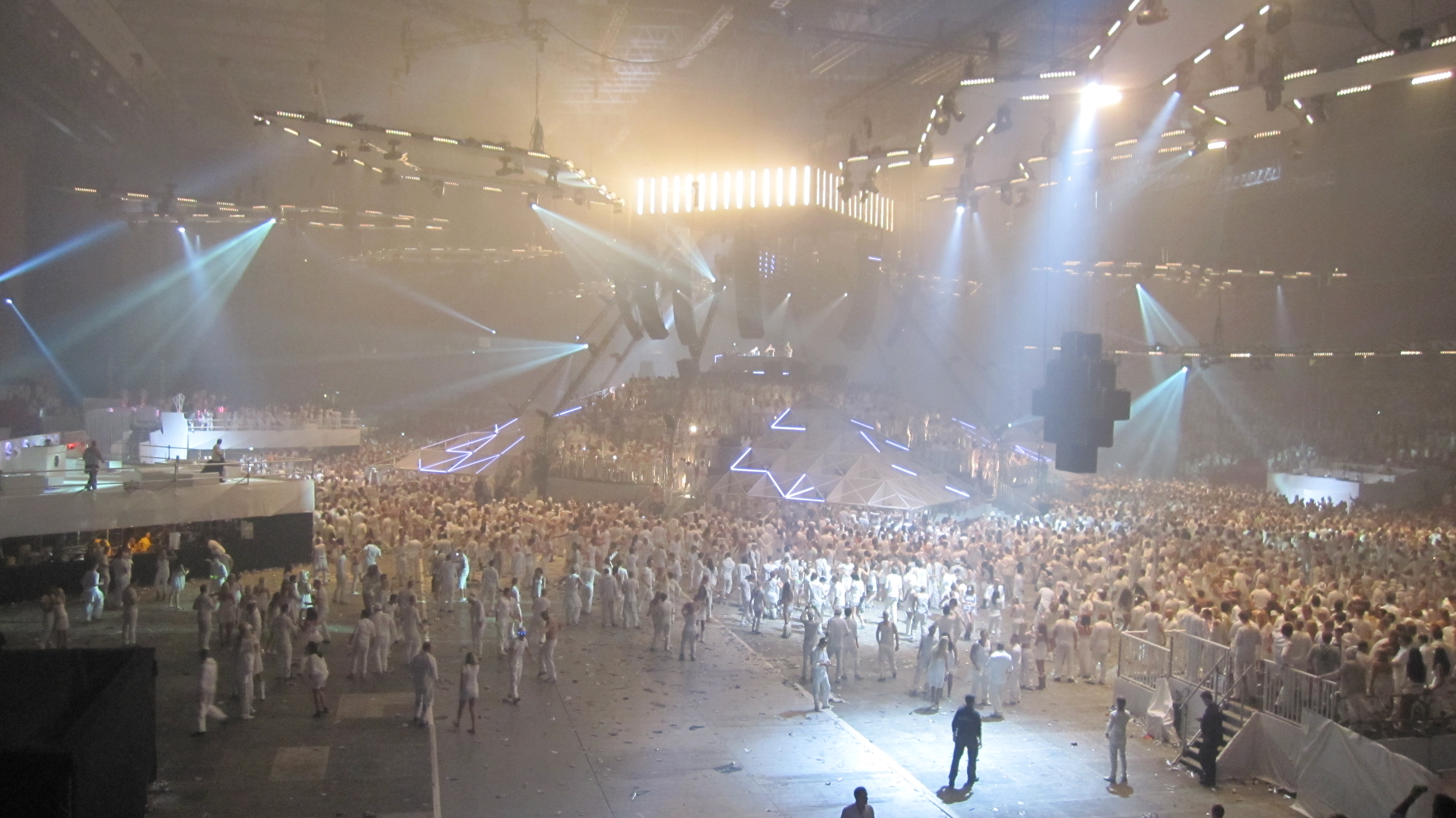 Sensation Denmark 2010